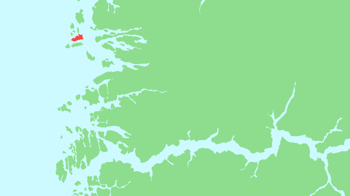 Locator map for the island of Skorpa in Sogn og Fjordane county, Norway